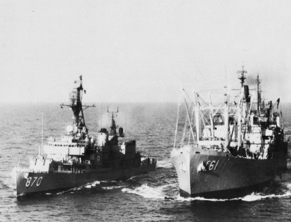 The U.S. Navy stores ship USS Procyon (AF-61) replenishes the destroyer USS Fechteler (DD-870) off Vietnam in 1969.